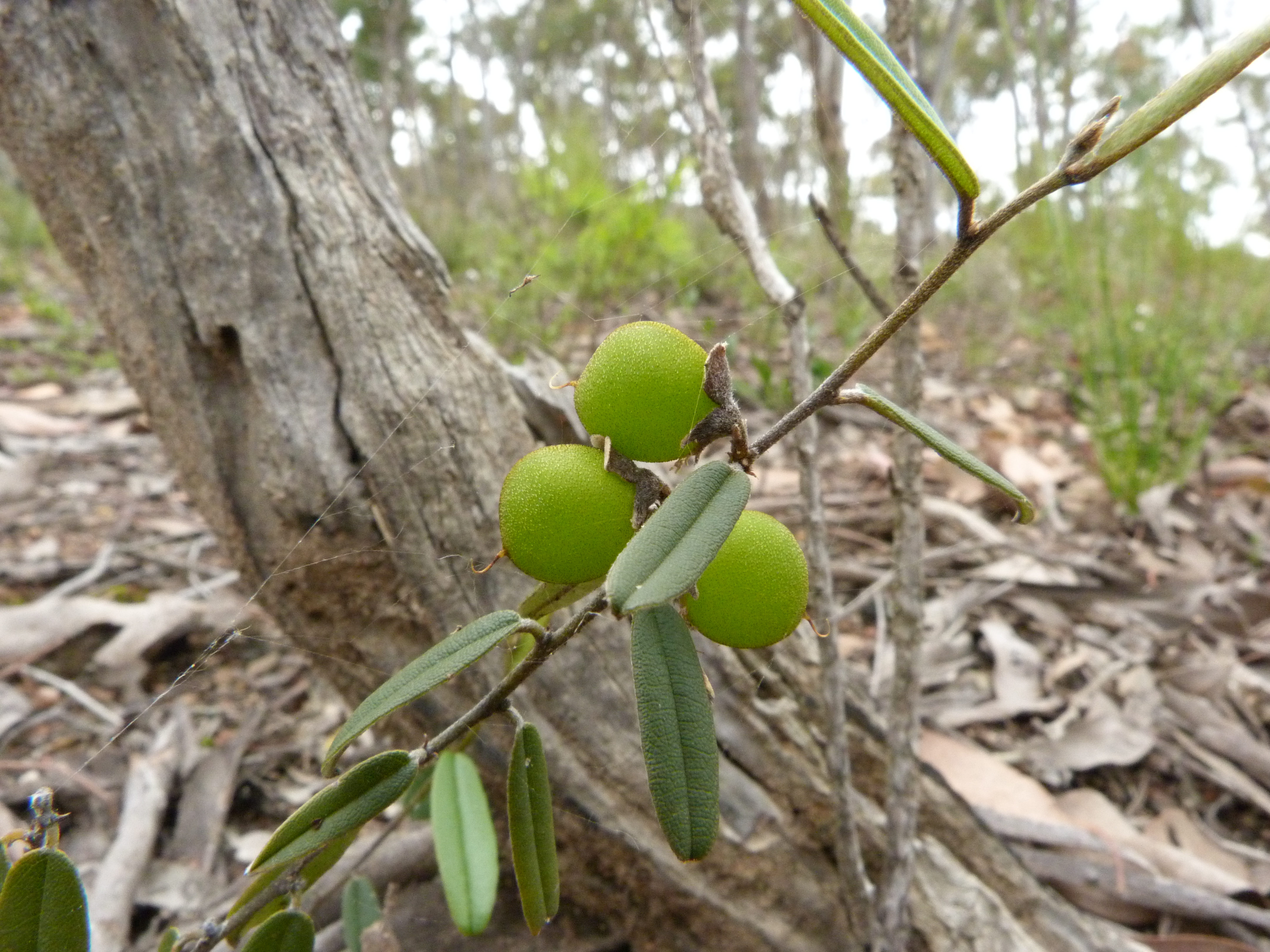 Hovea heterophylla A.Cunn. ex Hook.f., Black Mountain, Canberra, ACT, 1 November 2010